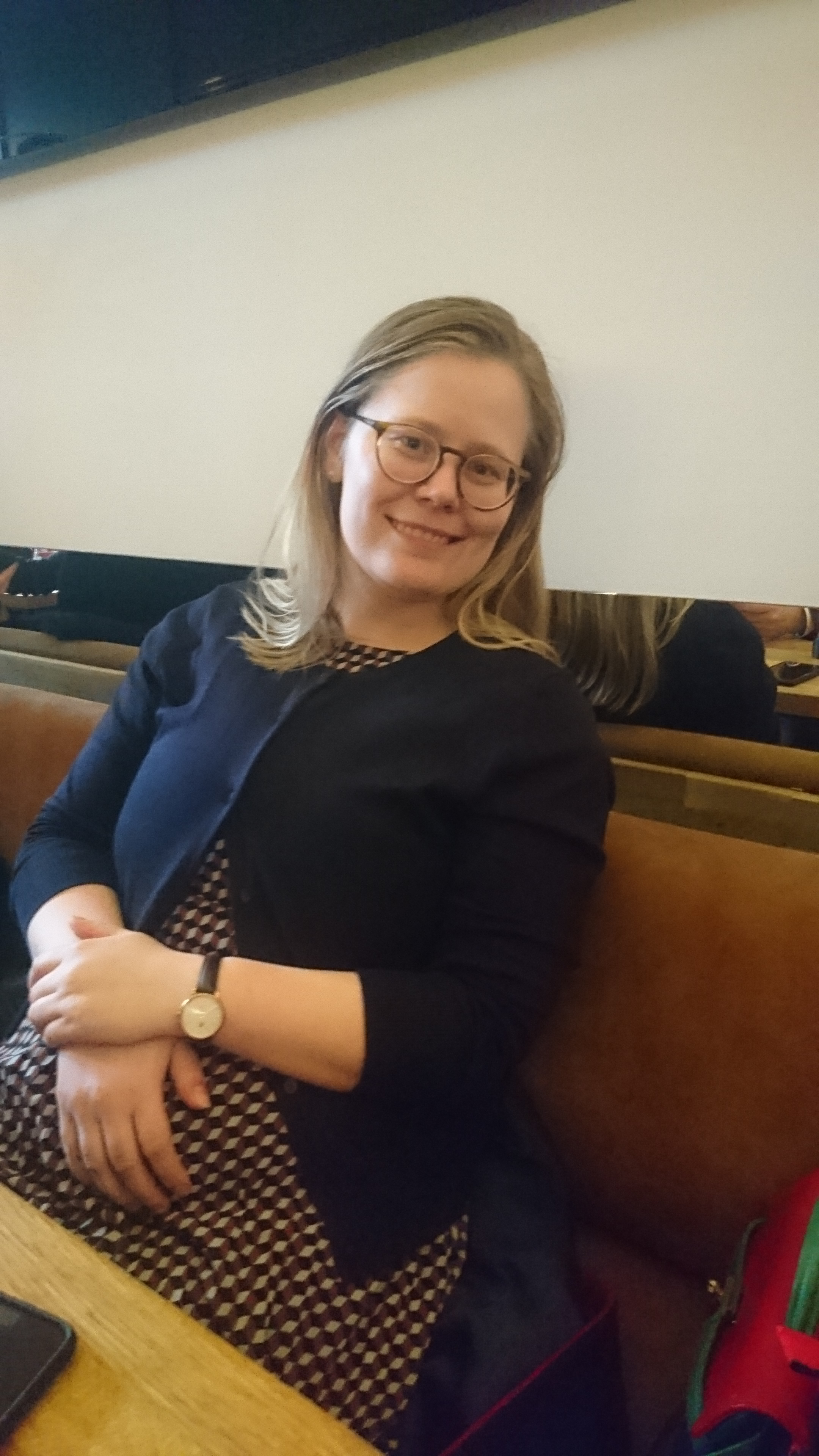 Icelandic politician Asta Gudrun Helgadottir, 2018.